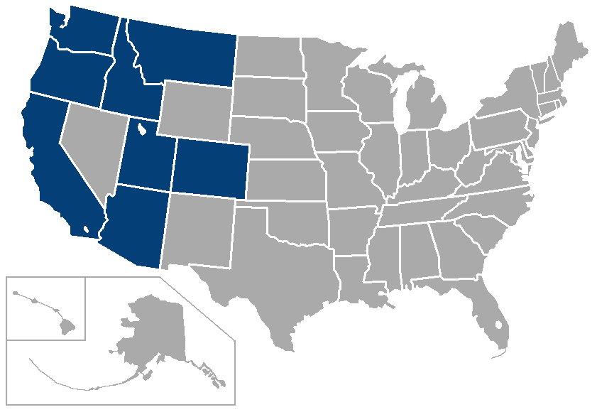 derived from [1]; map of states with Big Sky Conference schools